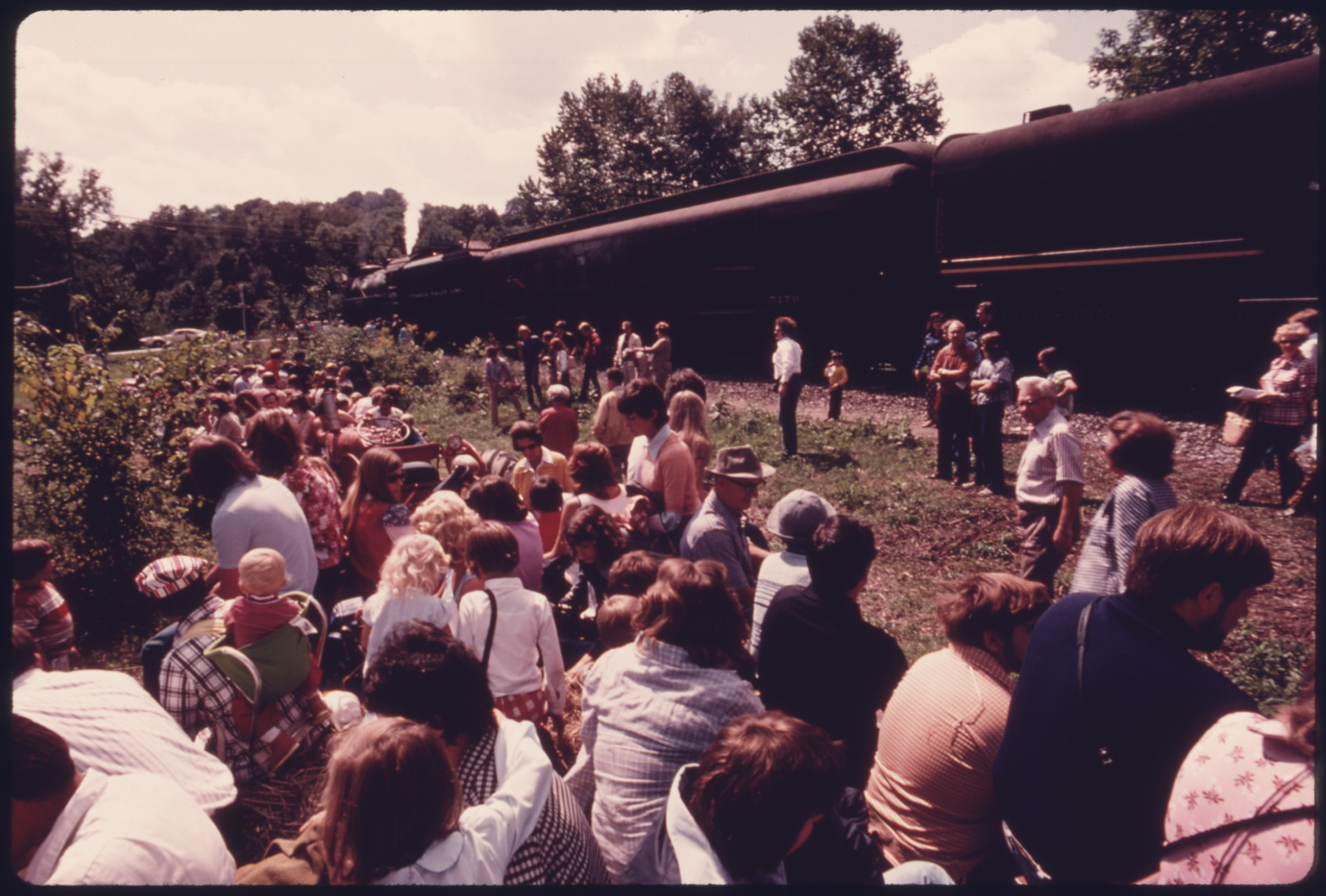 Scope and content: CUYAHOGA VALLEY LINE STEAM POWERED WEEKEND EXCURSION TRAIN PASSENGERS AT THE IRA ROAD AND RIVERVIEW ROAD STOP. THE TRAIN BEGINS ITS JOURNEY AT THE CLEVELAND, OHIO, ZOO STATION, AND TRAVELS THROUGH THE CUYAHOGA VALLEY WHICH IS PART OF THE CUYAHOGA VALLEY NATIONAL RECREATION AREA COMPRISING 30,000 ACRES BETWEEN CLEVELAND AND AKRON. THIS STOP IS LOCATED NEAR THE HALE FARM AND WESTERN RESERVE VILLAGE, A 19TH CENTURY COMMUNITY RECREATED NEAR AKRON VISITORS ARE TRANSPORTED BY STRAW COVERED WAGONS OR BUSES